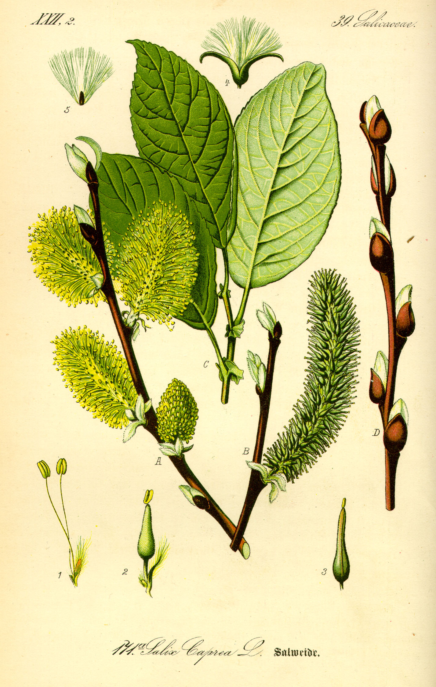 Name Salix caprea Family Salicaceae